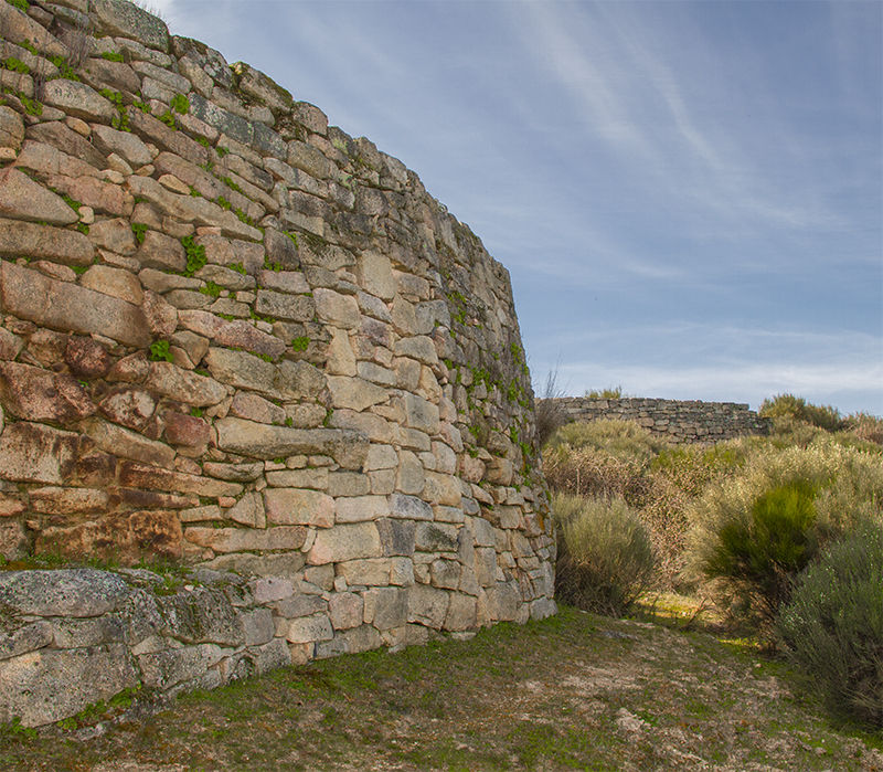 Fort hill of El Castillo, in Saldeana, Castile and León, Spain